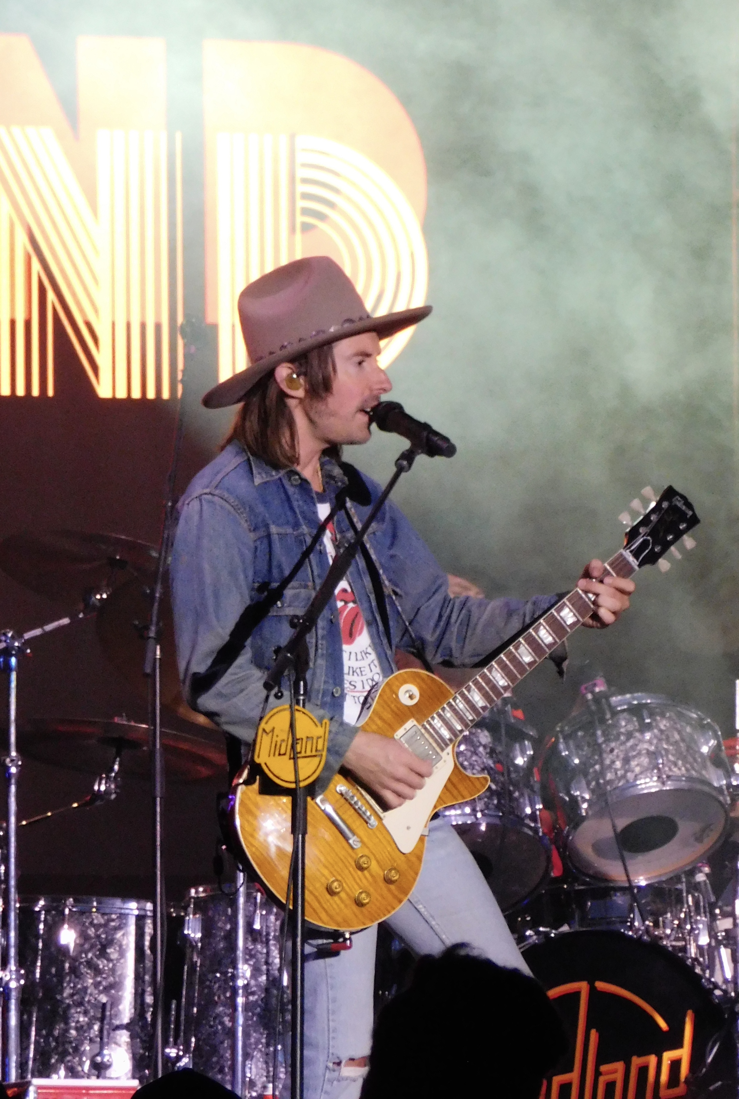 Midland in concert in NY State Fair, showing Jess Carson